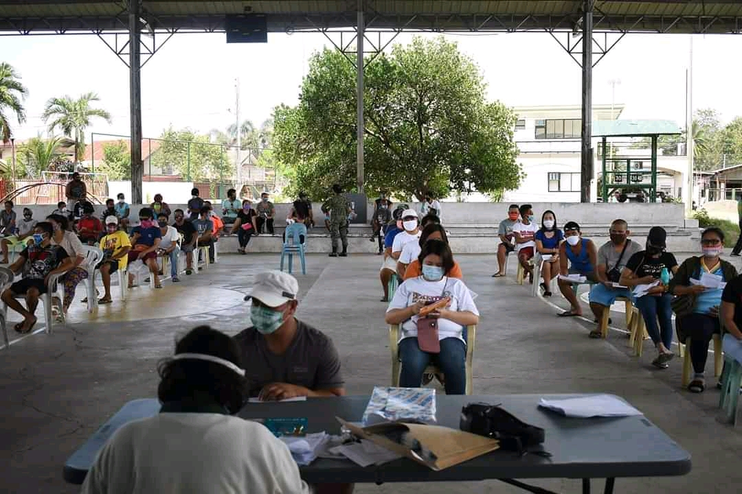 Social Amelioration Program grant beneficiaries practice social distancing during the pay out of their grants. *(EAD-PIA6/San Carlos photo)